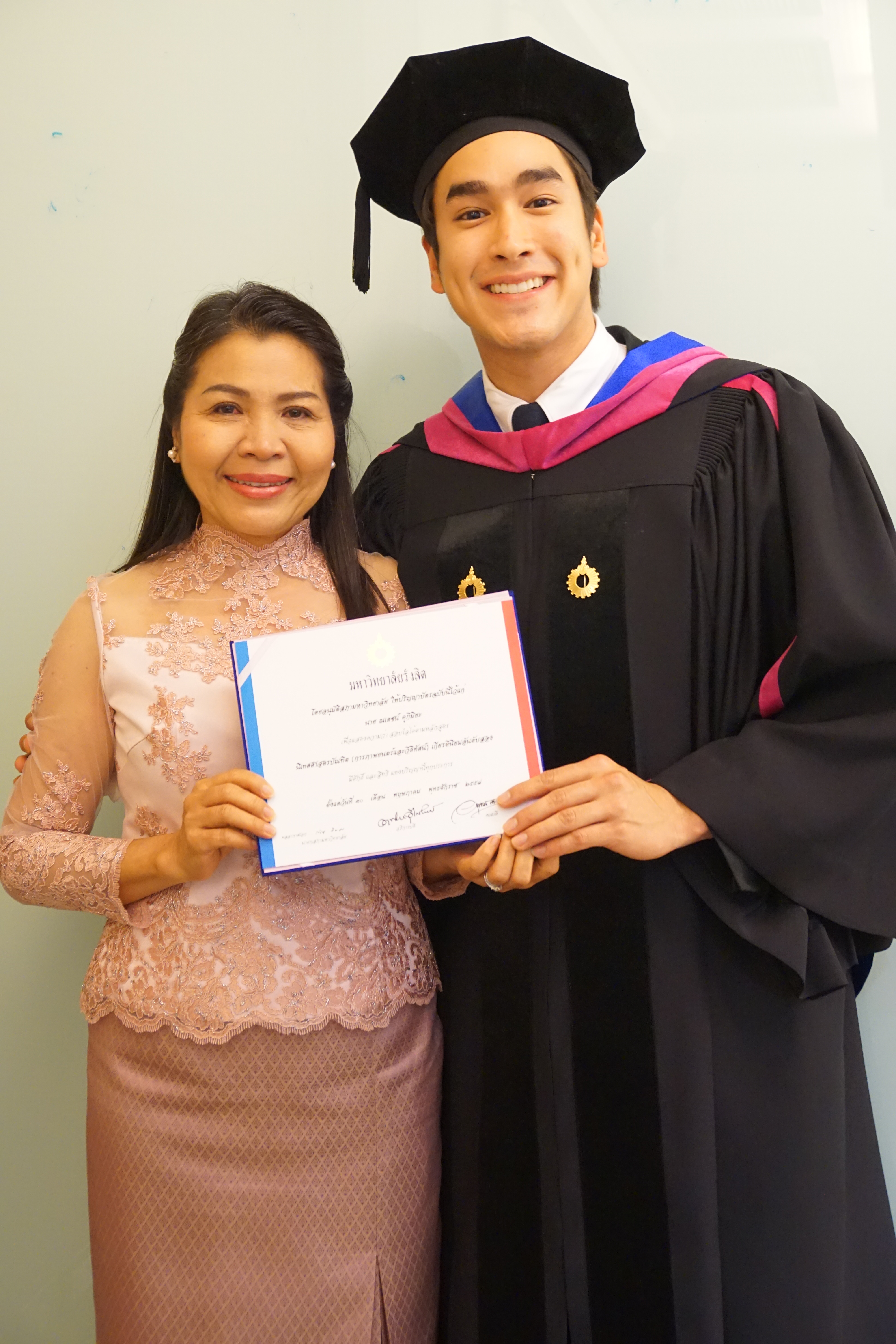 Nadech and his mom, Sudarat with Nadech's degree certificate in 2015